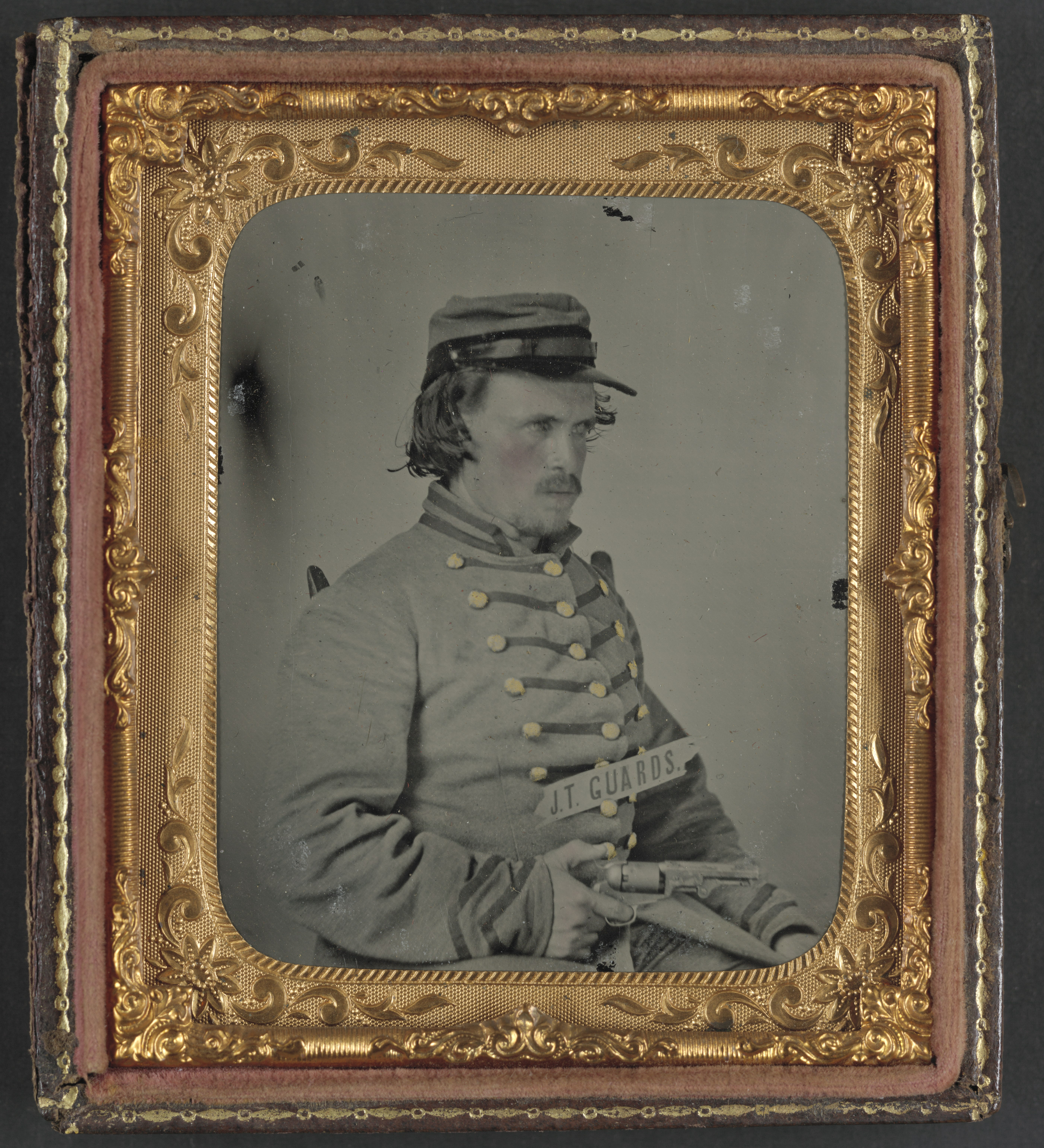 Title: Unidentified corporal in Confederate uniform of Company K, "Jake Thompson Guards," 19th Mississippi Infantry Regiment, with revolver Abstract/medium: 1 photograph : sixth-plate ambrotype, hand-colored ; 9.3 x 8.2 cm (case)